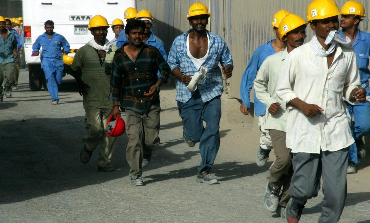 This is a photo showing some construction workers at the Burj Dubai construction site in Dubai, United Arab Emirates on 4 June 2007.